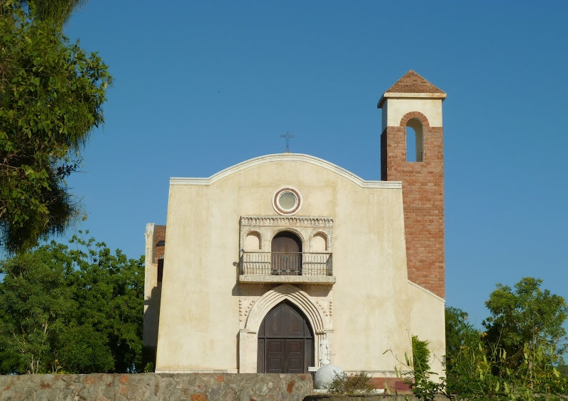 Temple of the Americas, near La Isabela archaeological site, Dominican Republic